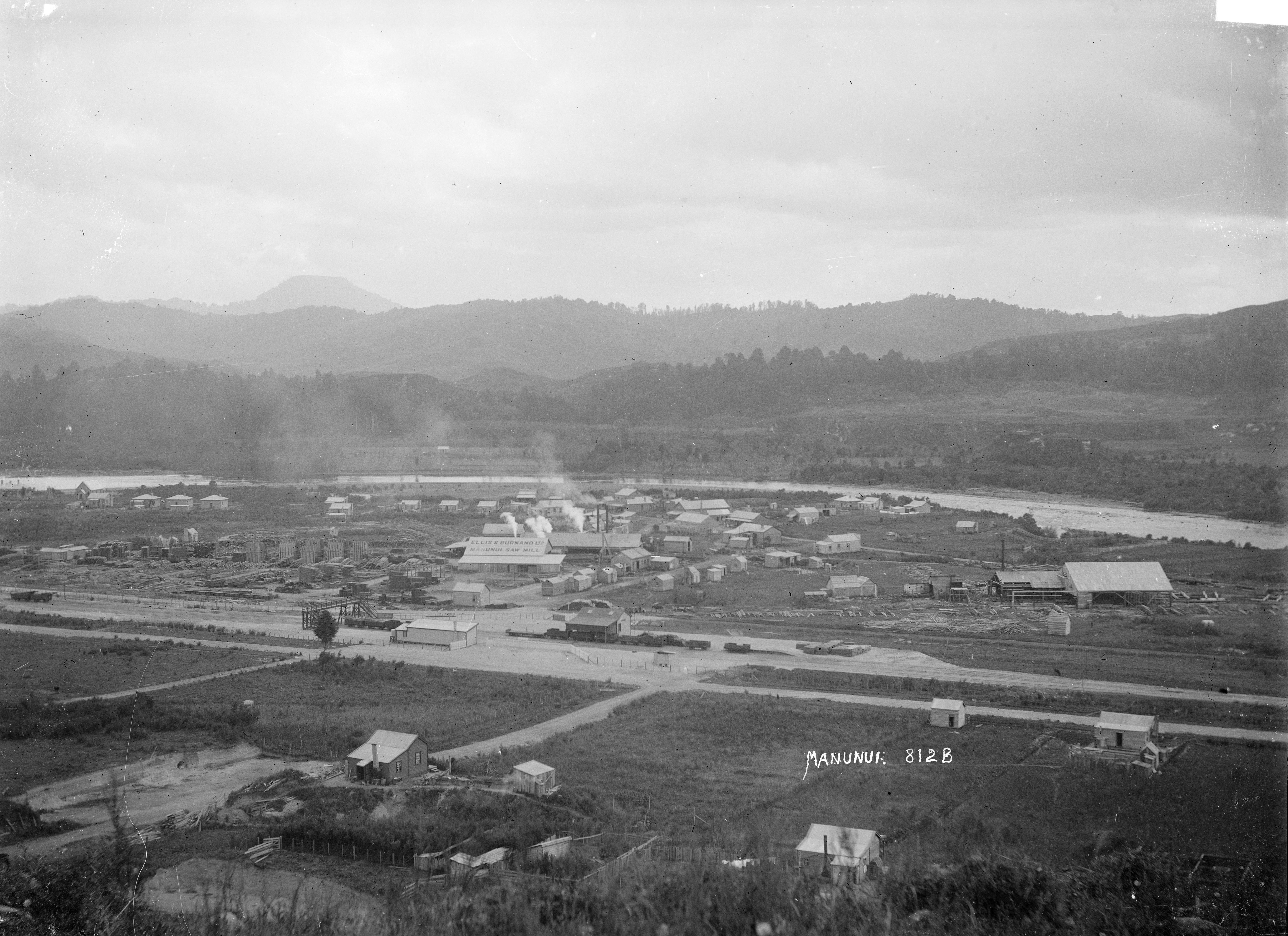 Overlooking the township of Manunui, circa 1908-15. The Whanganui River is visible behind the town, with Ellis & Burnand's Manunui Sawmill and timber yards in the centre. Photograph taken by William A Price. Inscriptions: Inscribed - Photographer's title on negative -bottom right: Manunui [No.] 812B. Quantity: 1 b&w original negative(s). Physical Description: Dry plate glass negative Township of Manunui. Price, William Archer, 1866-1948 :Collection of post card negatives. Ref: 1/2-000820-G. Alexander Turnbull Library, Wellington, New Zealand.